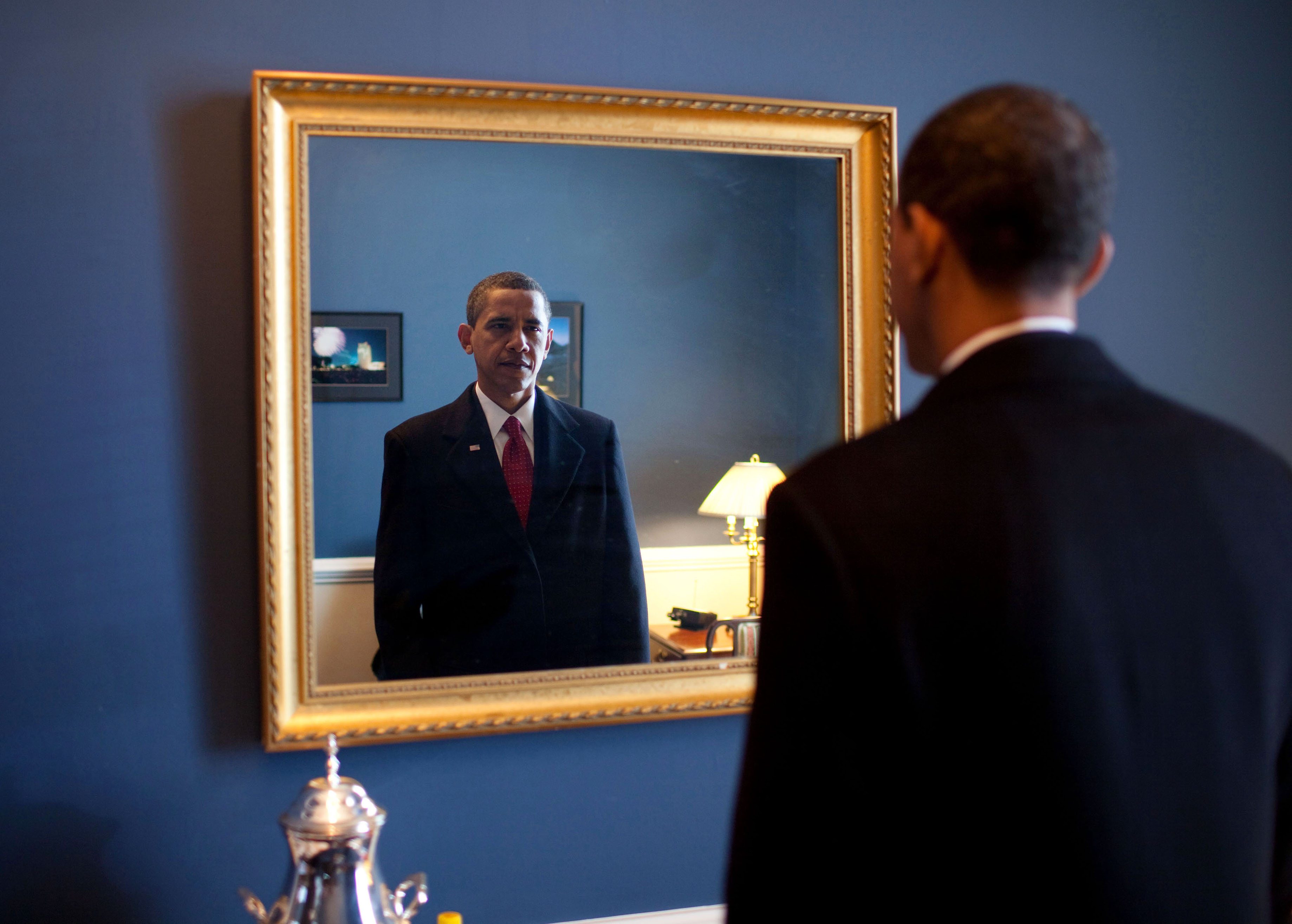 Jan. 20, 2009 “President-elect Barack Obama was about to walk out to take the oath of office. Backstage at the U.S. Capitol, he took one last look at his appearance in the mirror.” (Official White House photo by Pete Souza)